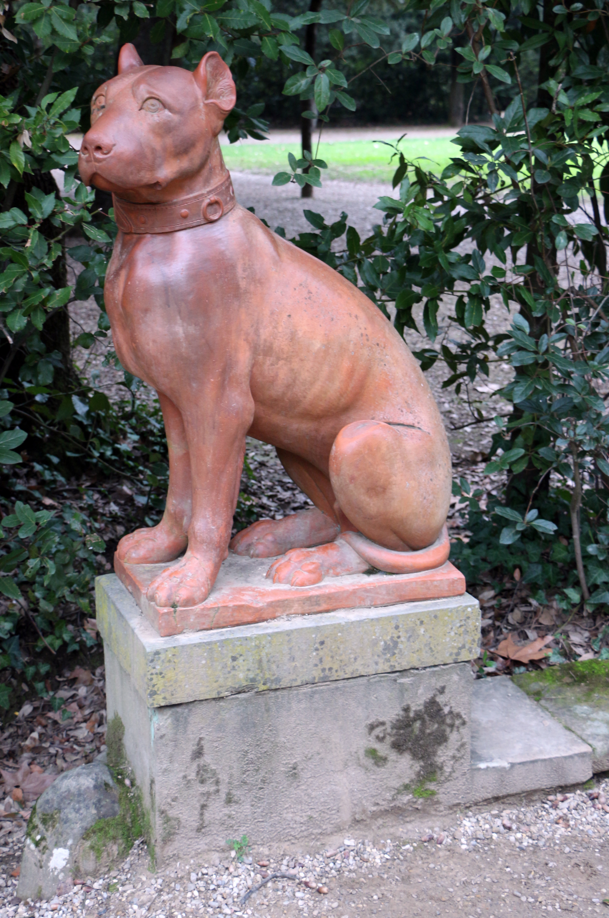 Molosser dog statue in terracota. Boboli Gardens, Florence, Italy.